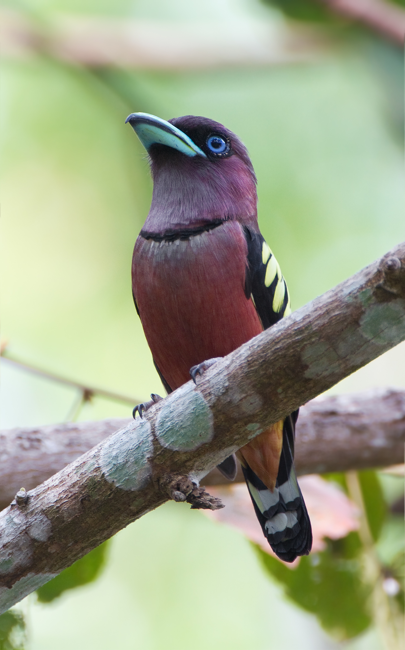 Banded Broadbill (Eurylaimus javanicus), Khao Yai National Park, Pak Chong, Thailand